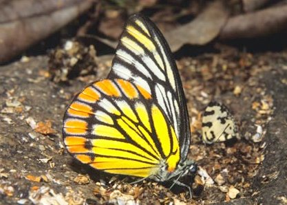 Painted Sawtooth (Prioneris sita) mudpuddling